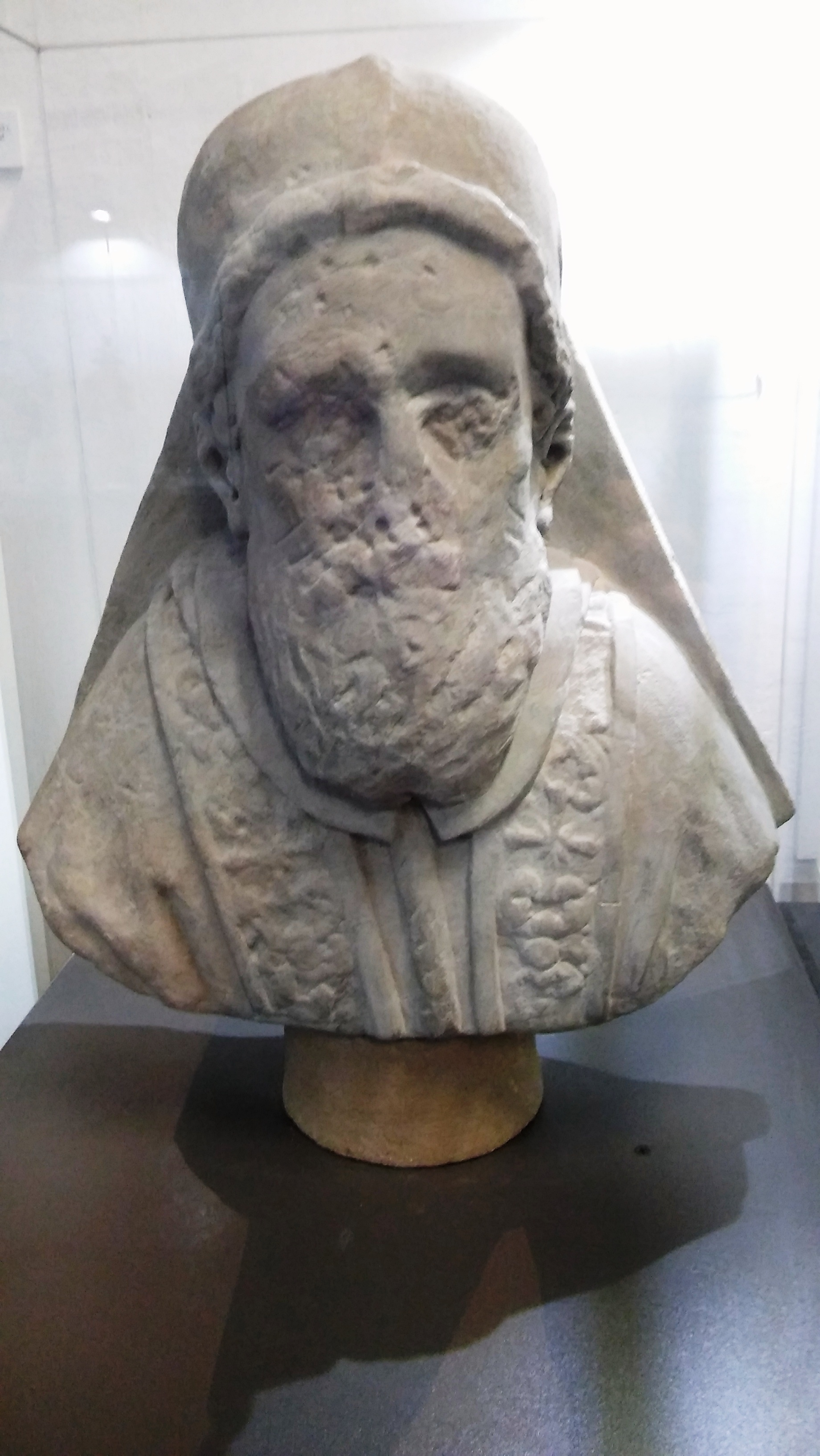 Muzeum Ziemi Braniewskiej popiersie z wapienia gotlandzkiego XVI wiek Marcin Kromer